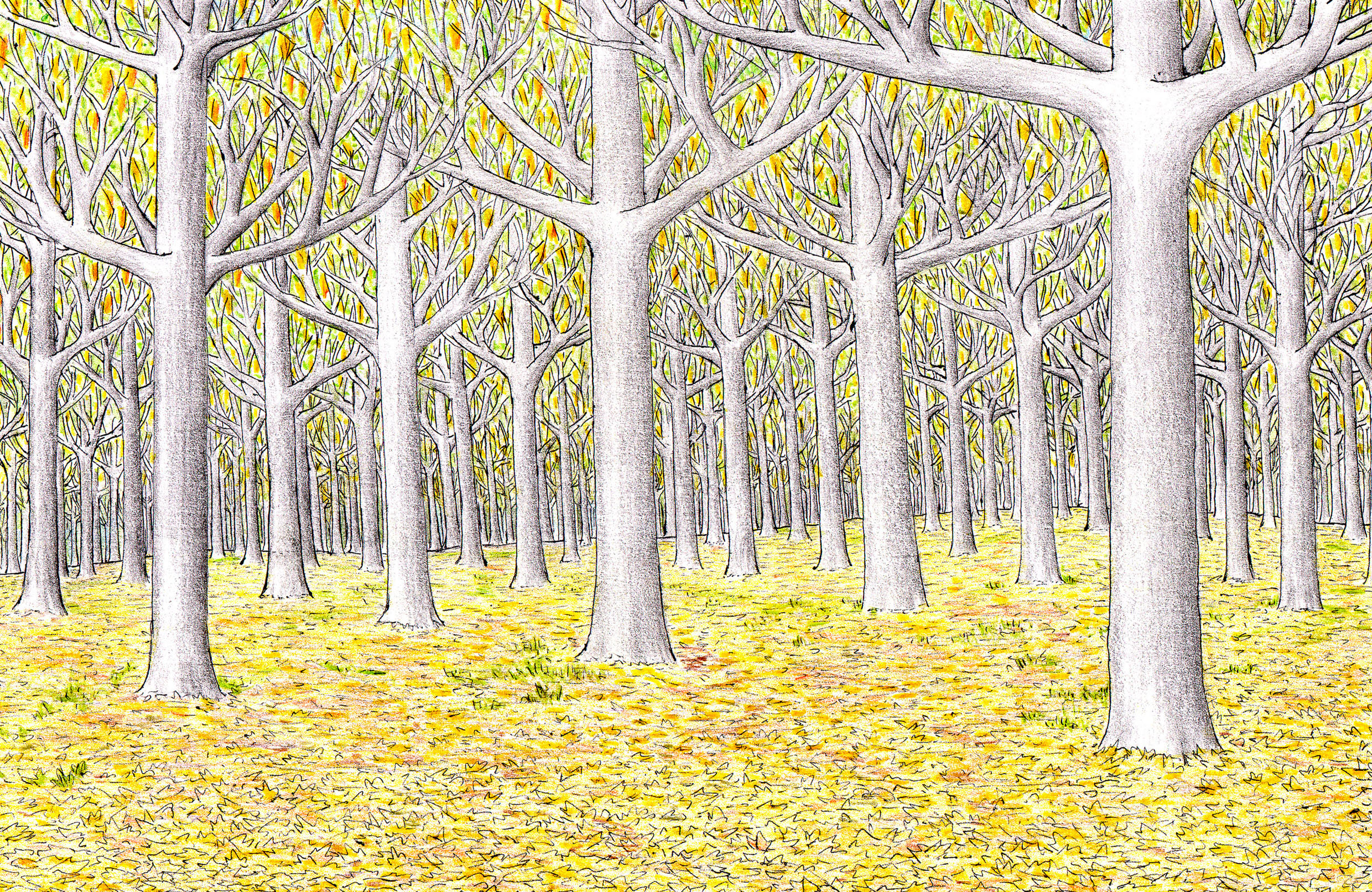 Lothlórien